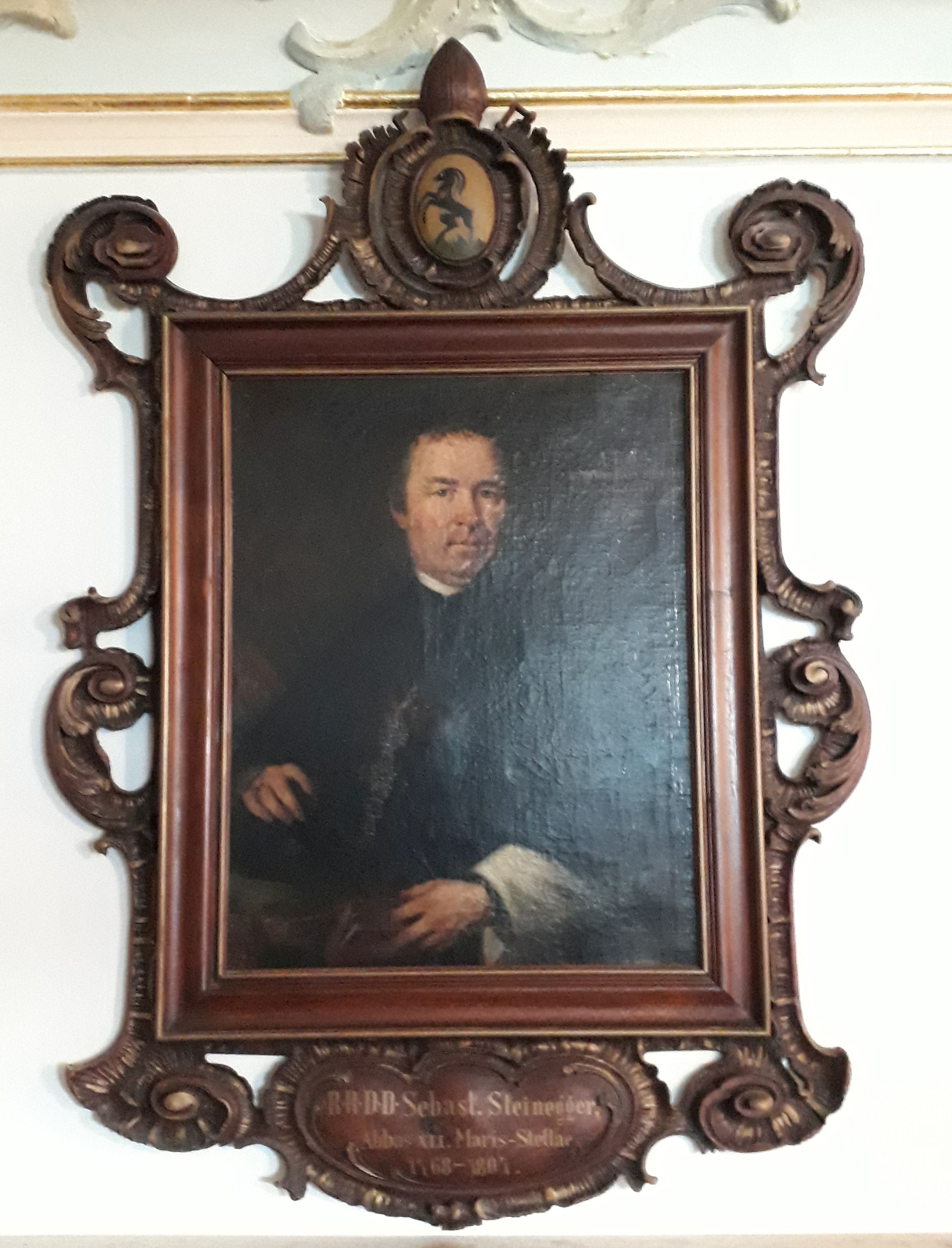 Mehrerau Abbey in Bregenz (Wettingen-Mehrerau Territorial Abbey), Vorarlberg, Austria. Painting of the Sebastian Steinegger